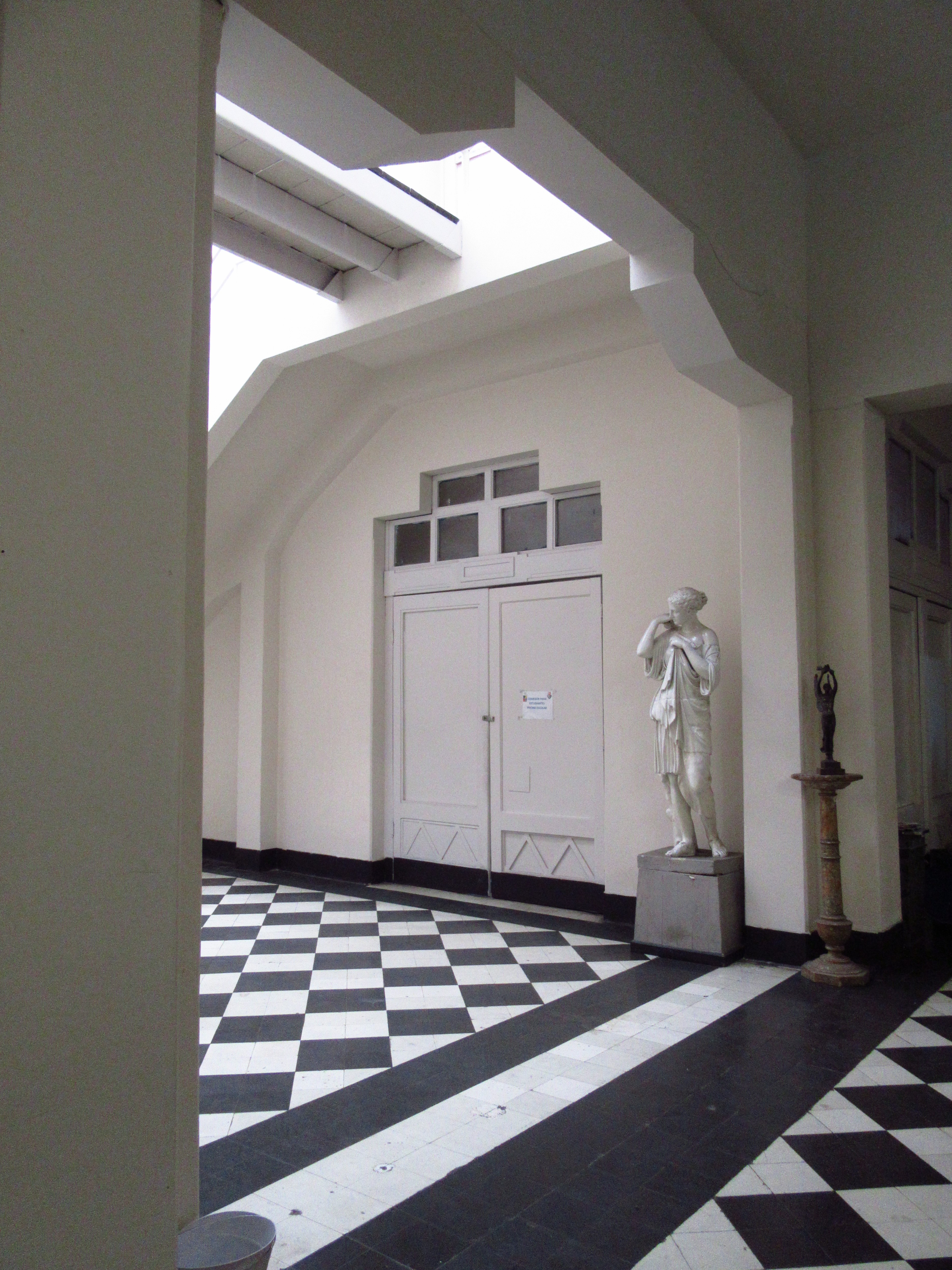 2017 in Santiago de Chile